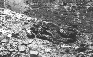 The body of one of the approximately 350 Polish civilians murdered by SS troops during the Warsaw Uprising in mass executions carried out in the ruins of the Polish National Opera (8-9 August 1944).